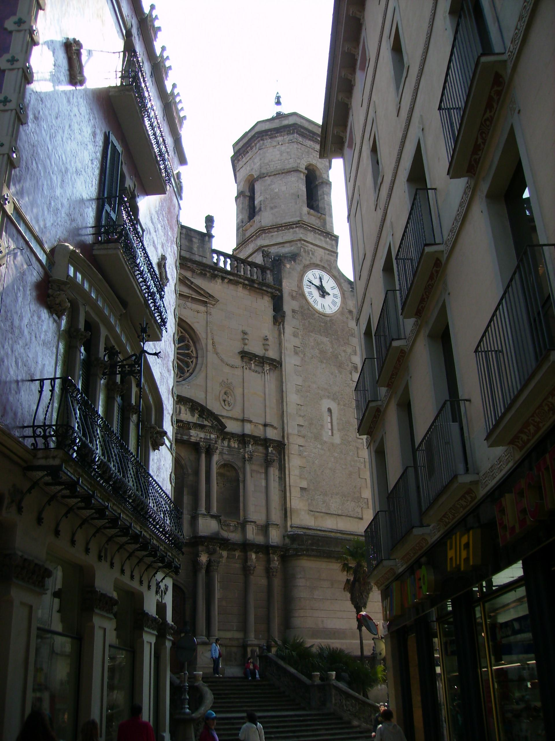 Sant Esteve church in Olot (Catalonia)